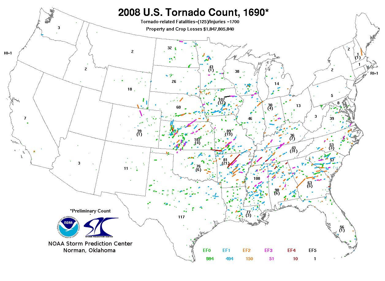 Tracks of all United States tornadoes in 2009